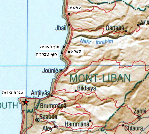 map of fighting areas in Safra massacre